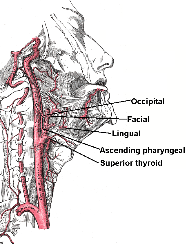 The internal carotid and vertebral arteries. Right side. Some of the branches labeled.